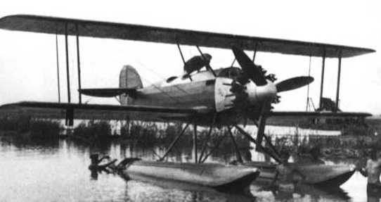 Romanian-made floatplane based on the SET 7